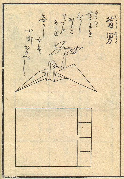 Hiden Senbazuru Orikata ("The Secret of One Thousand Cranes Origami") is one of the oldest known origami books